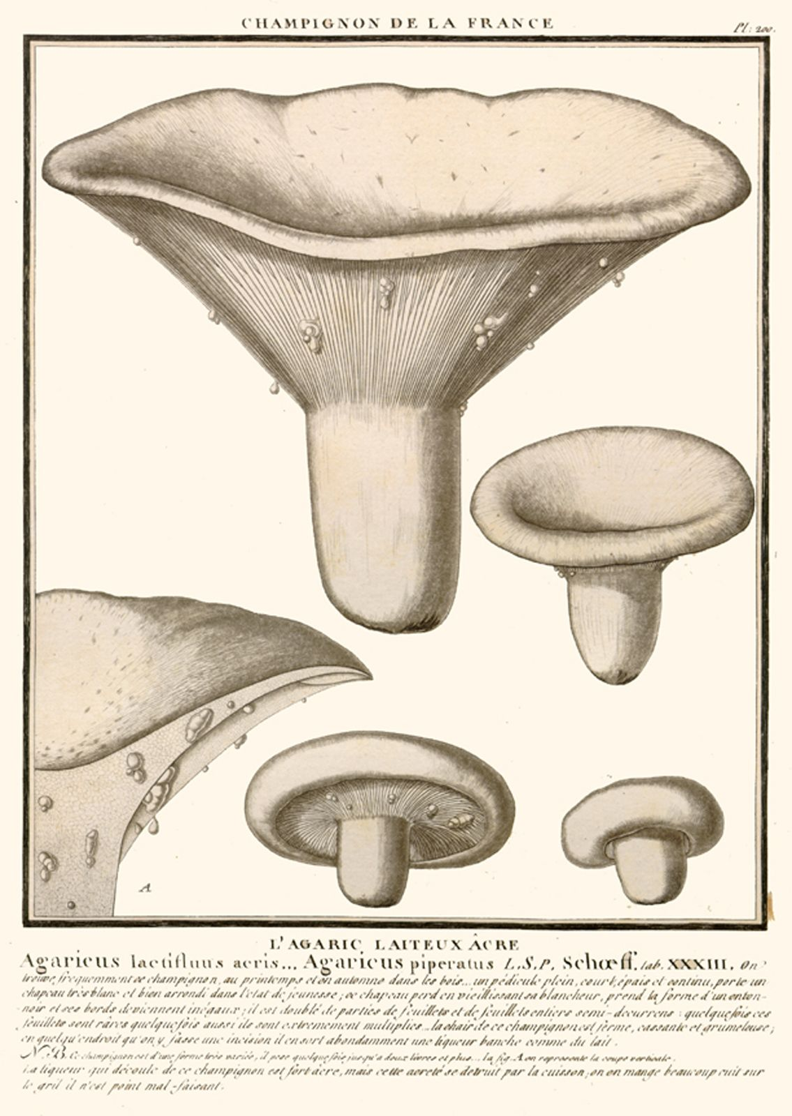 Bulliard's illustration of Lactarius piperatus, original in: Bulliard, P. 1791, Histoire des champignons de la France. I: 1-368